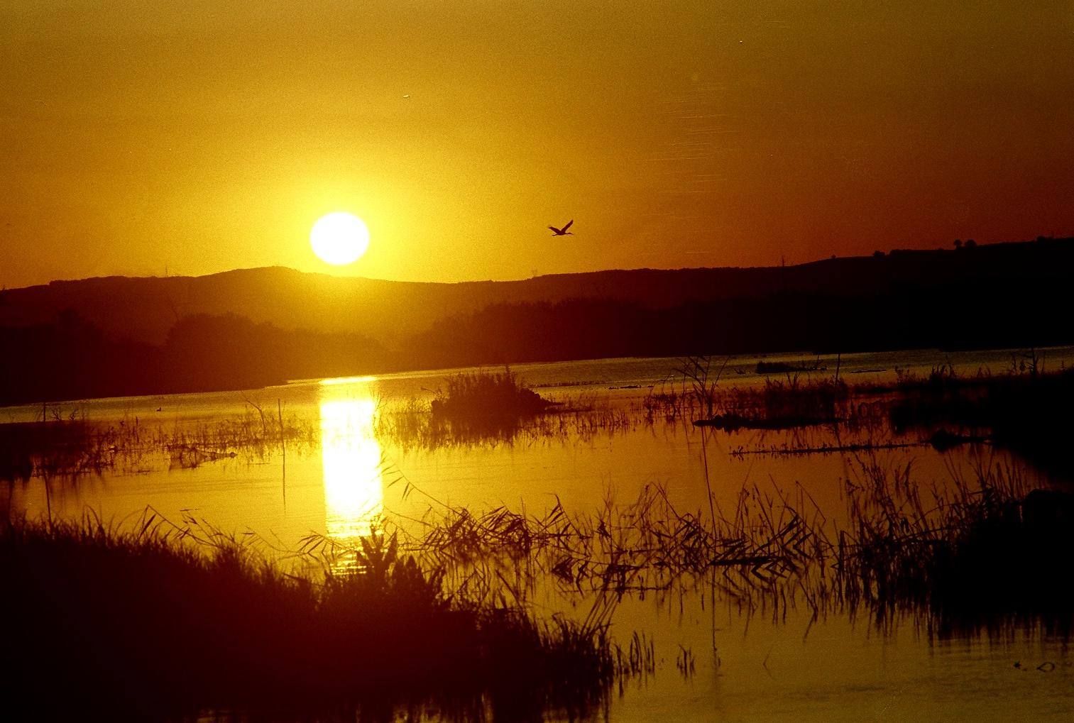 Ladik Gölünde Gün batımı